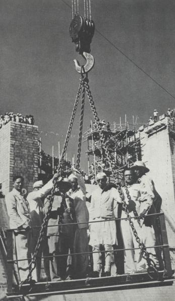 Jawaharlal Nehru inspecting progress of work on Tungabhadra Dam, 29 September 1952